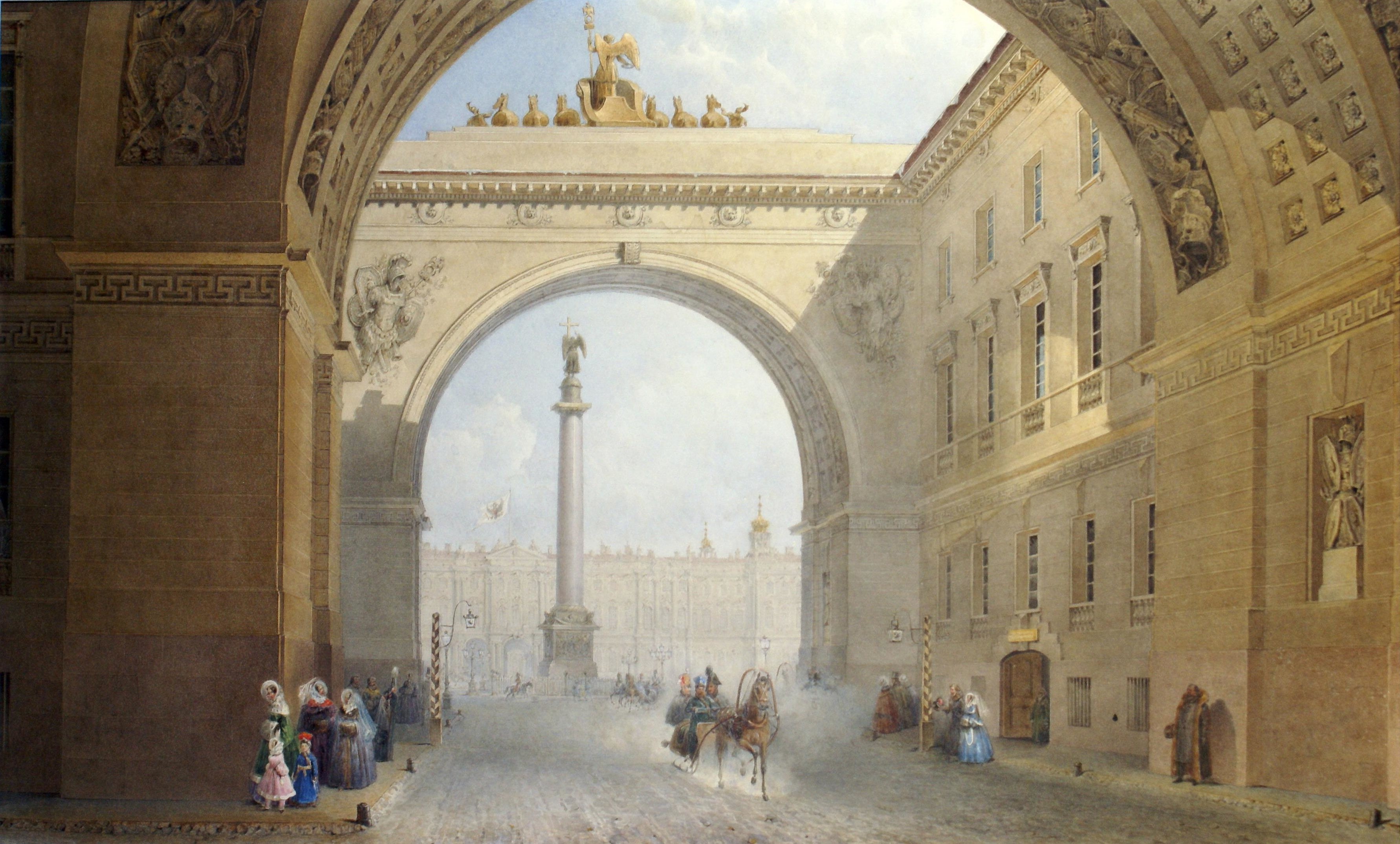 “Arch of General Stuff Building” by Vasily Sadovnikov. Watercolor.)